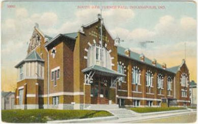 Vintage postcard of Turner Hall in Indianapolis, Indiana.